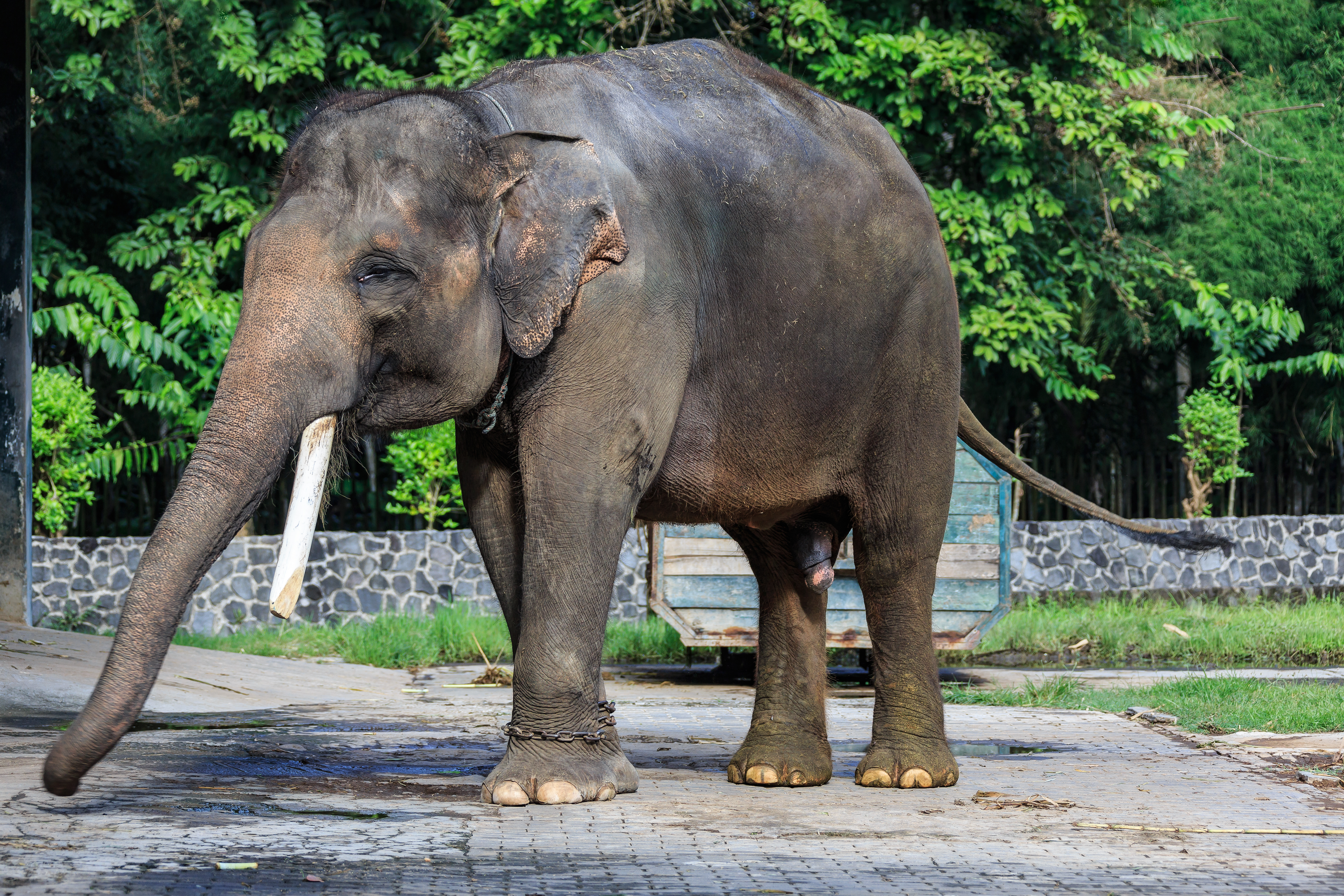 Borobudur temple Park, Indonesia: A male elephant at Borobudur Elephant Cage.